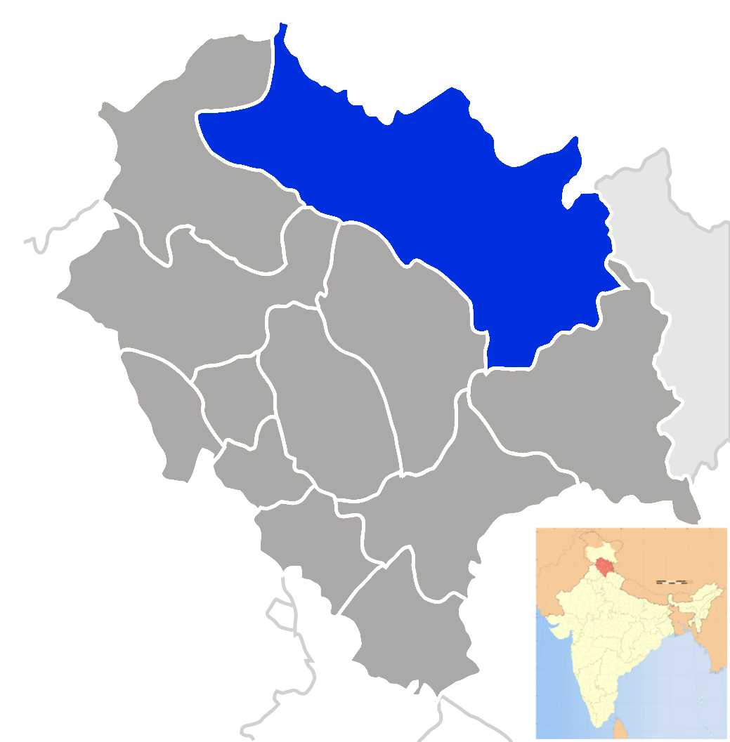 Lahaul and Spiti district of Himachal Pradesh